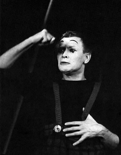 Jan Malmsjö as Littlechap in the musical Stop the World. Premier 1963 in Stockholm